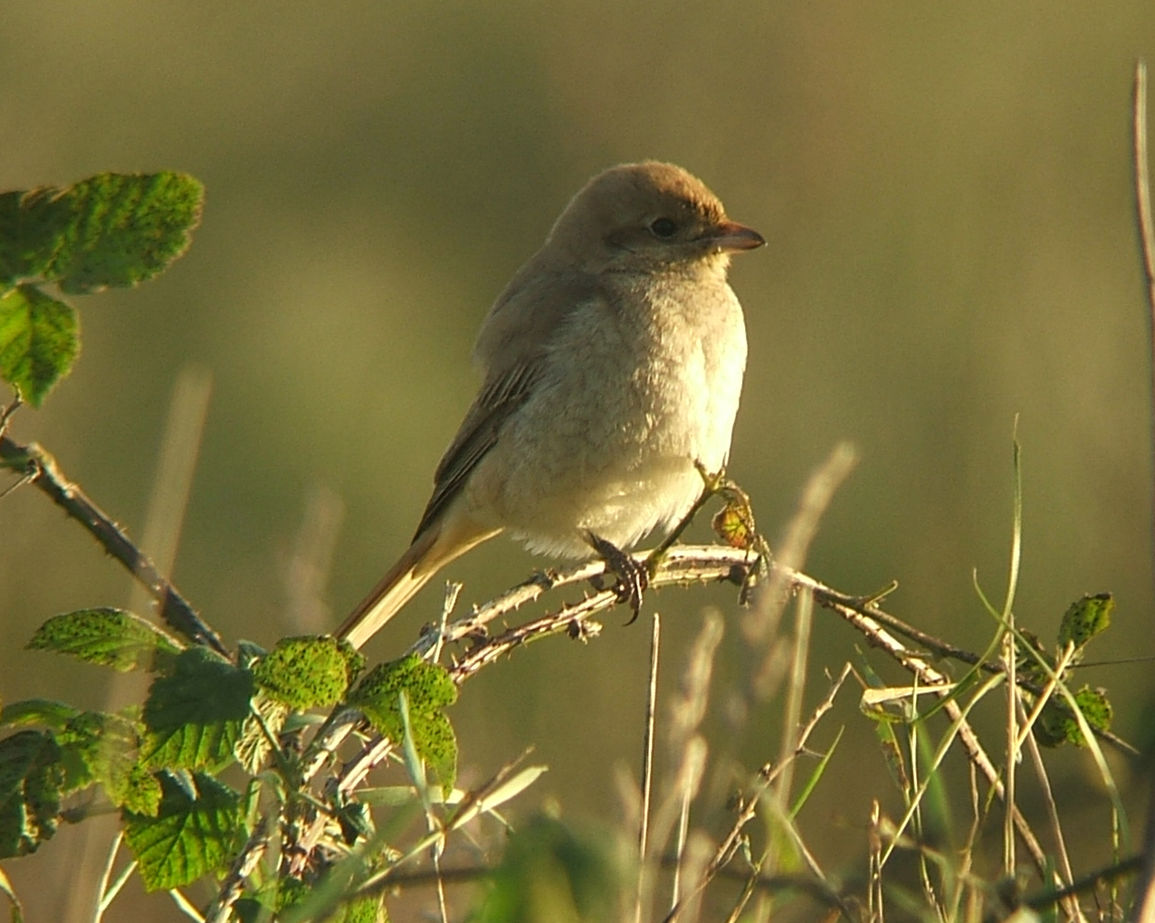 Lanius isabellinus juvenile, Cresswell Pond, Northumberland, UK.